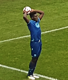 Full Album: HFX Wanderers FC - Cavalry FC 06/19/2019 Halifax Wanderers' André Bona throw-in during a match against Cavalry FC on June 19, 2019, in Halifax, Nova Scotia, Canada.